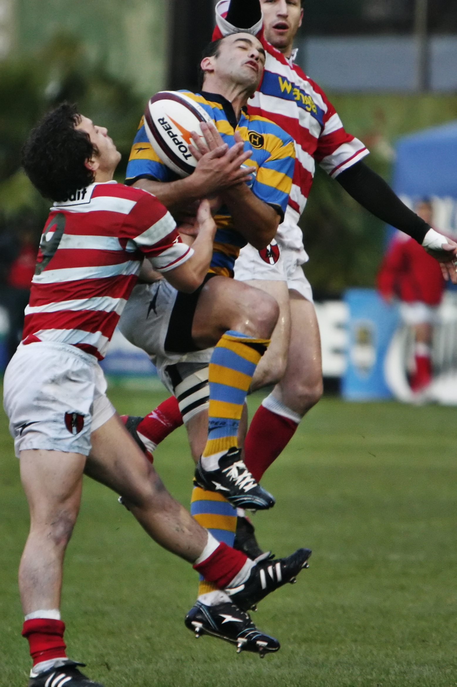 Hindu played and won against Alumni for the 2007 URBA Rugby Championship